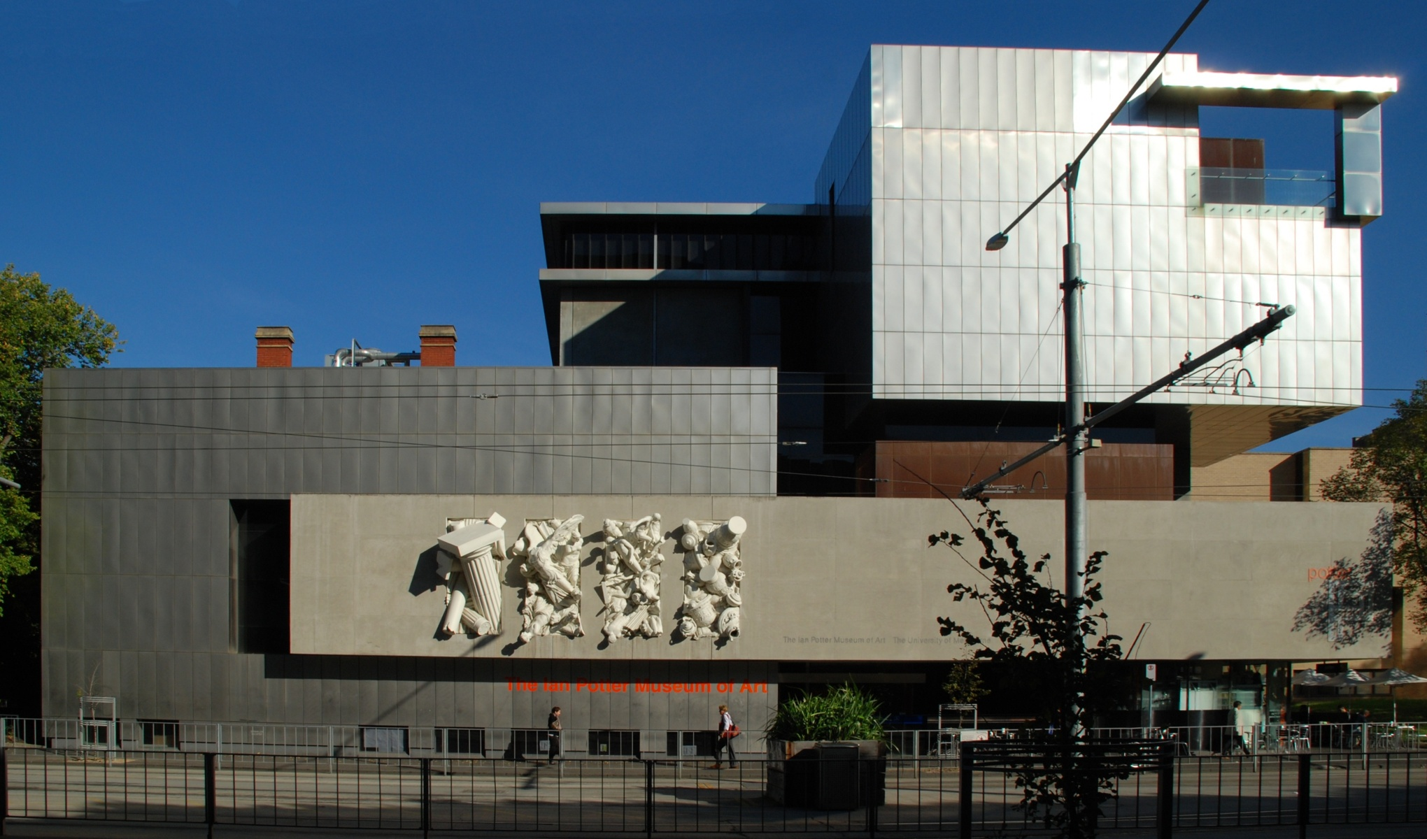 Ian Potter Museum of Art, Swanston St, Melbourne, Australia